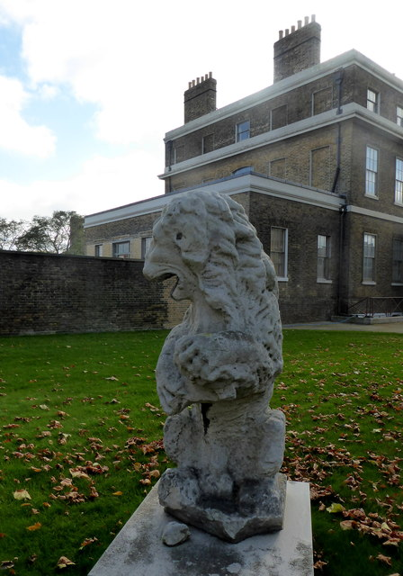 17th-century stone lion from the old garrison gatehouse, on the green in front of Dockyard House (former residence of the Captain Superintendent).